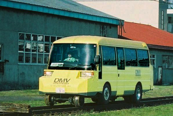 JR Hokkaido Dual Mode Vehicle, in Naebo Factory